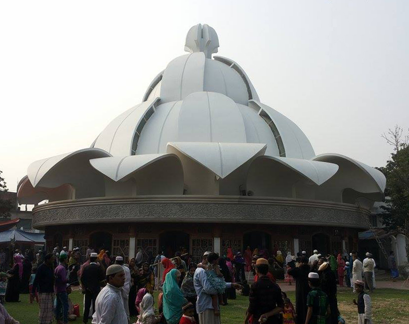 ছৈয়দ জিয়াউল হক এর রওজার ছবি - নাইডু কর্তৃক গৃহিত